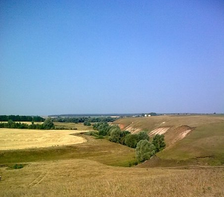 Бәрле елгасы тугае.